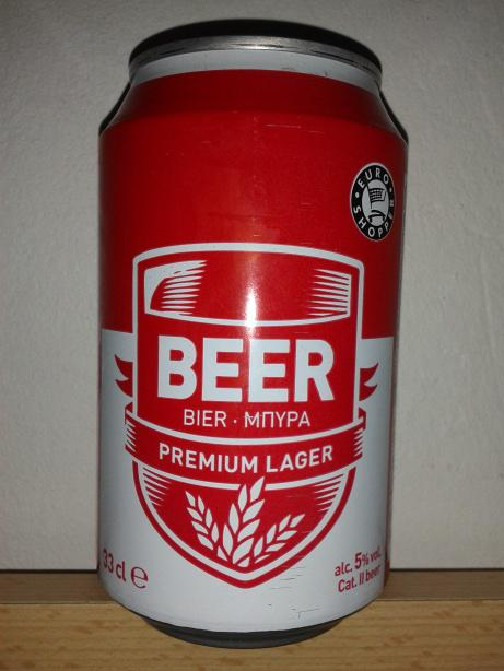 Euroshopper Premium Lager (.33 liter can)